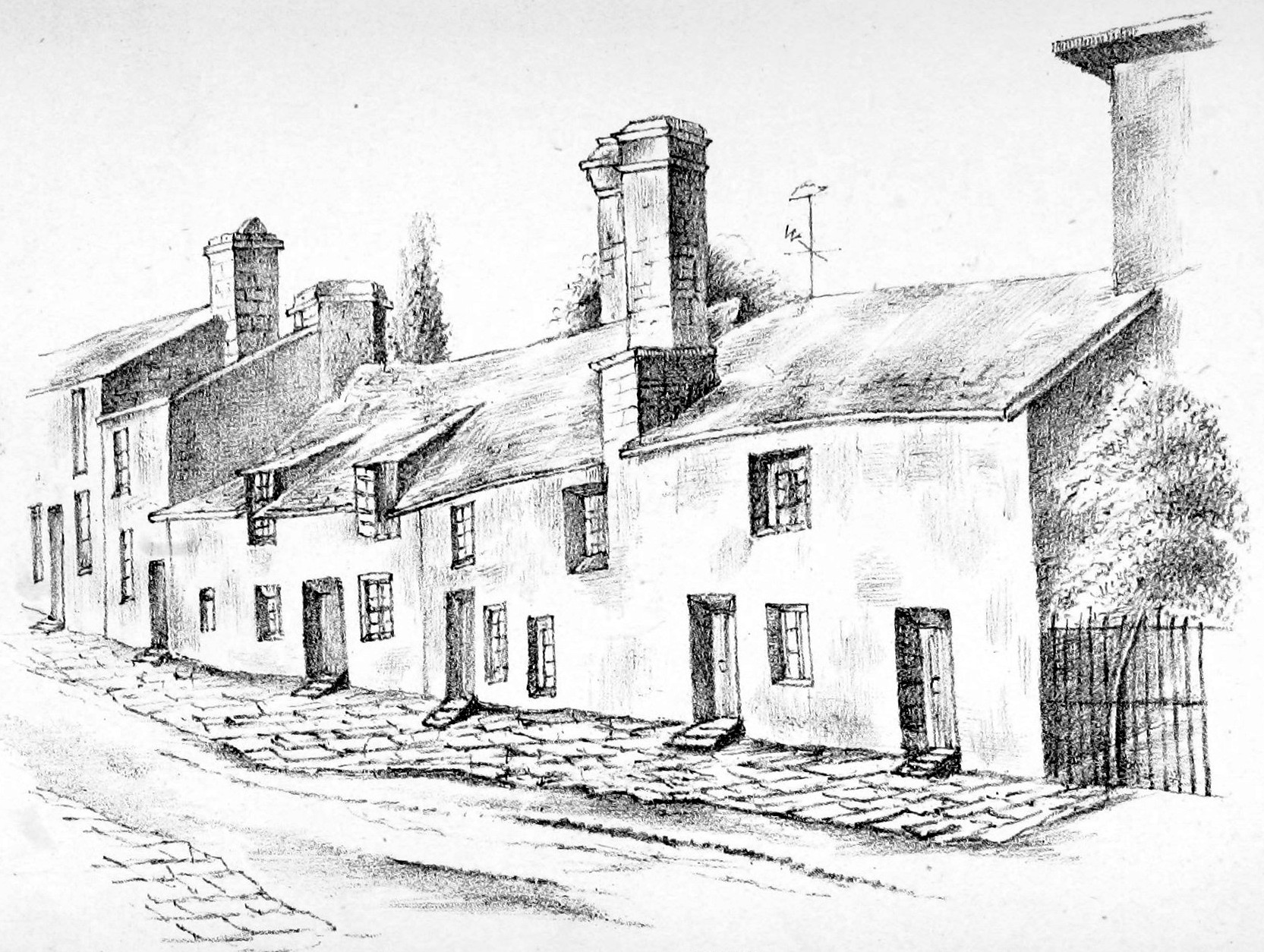 Wogan Street, Laugharne, circa 1880, Greyscale, Levels adjusted. Image taken from: Title: "[The Antiquities of Langharne and Pendine, Carmarthenshire, S. Wales, with some notice of their neighbourhoods, and illustrations.]" Author: CURTIS, Mary - of Langharne Shelfmark: "British Library HMNTS 10369.ccc.2." Page: 85 Place of Publishing: London Date of Publishing: 1880 Publisher: Printed for the Author Edition: Second edition. Issuance: monographic Identifier: 000840901 Note: The colours, contrast and appearance of these illustrations are unlikely to be true to life. They are derived from scanned images that have been enhanced for machine interpretation and have been altered from their originals. If you wish to purchase a high quality copy of the page that this image is drawn from, please order it here. Please note that you will need to enter details from the above list - such as the shelfmark, the page, the book's volume and so on - when filling out your order. Following this or the link above will take you to the British Library's integrated catalogue. You will be able to download a PDF of the book this image is taken from, as well as view the pages up close with the 'itemViewer'. Click on the 'related items' to search for the electronic version of this work. Click here to see all the illustrations in this book and click here to browse other illustrations published in books in the same year. Please click on the tags shown on the right-hand side for other ways to browse the illustrations.